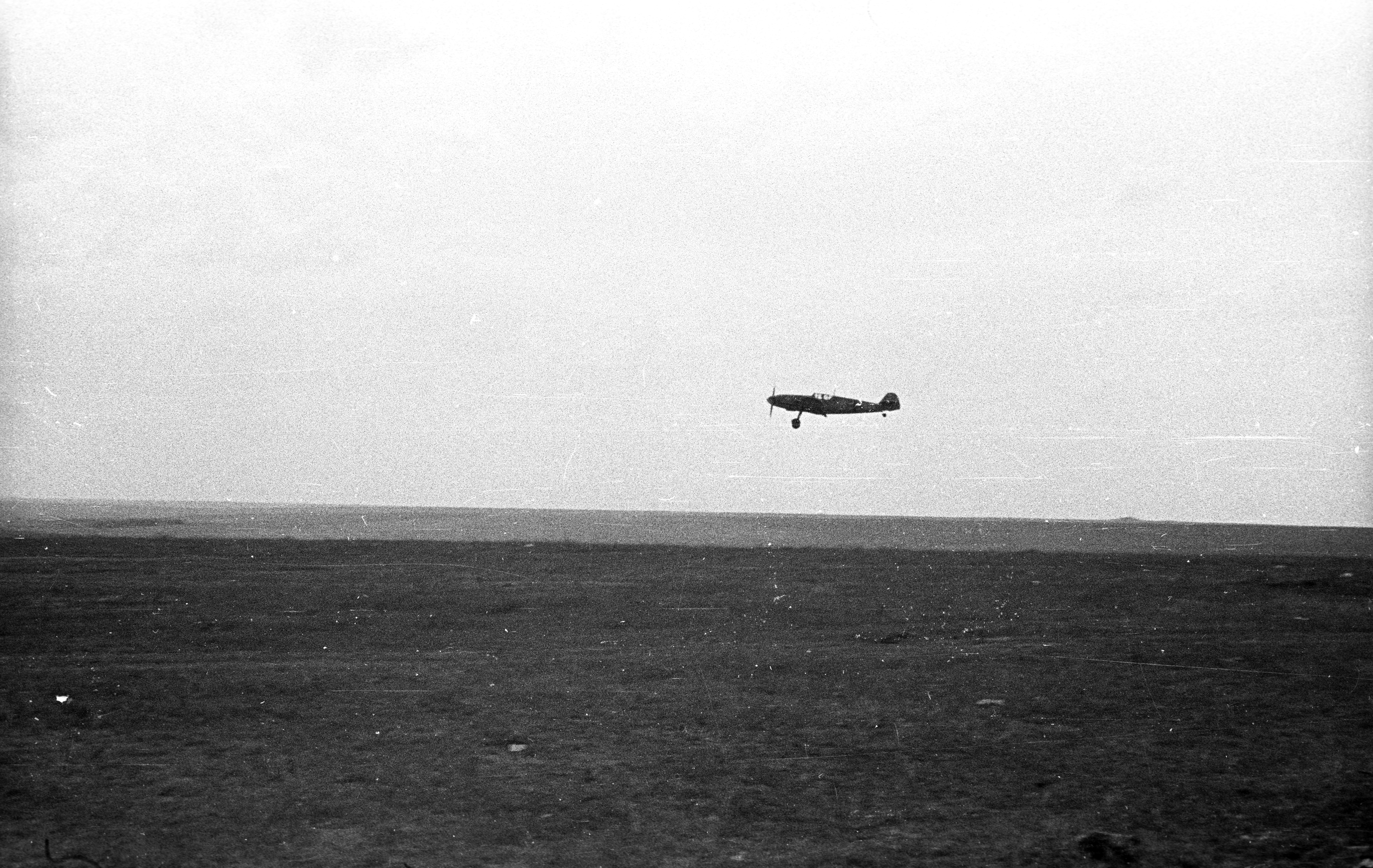 Tags: airplane, fighter plane, Gerrman brand, Messerschmitt-brand